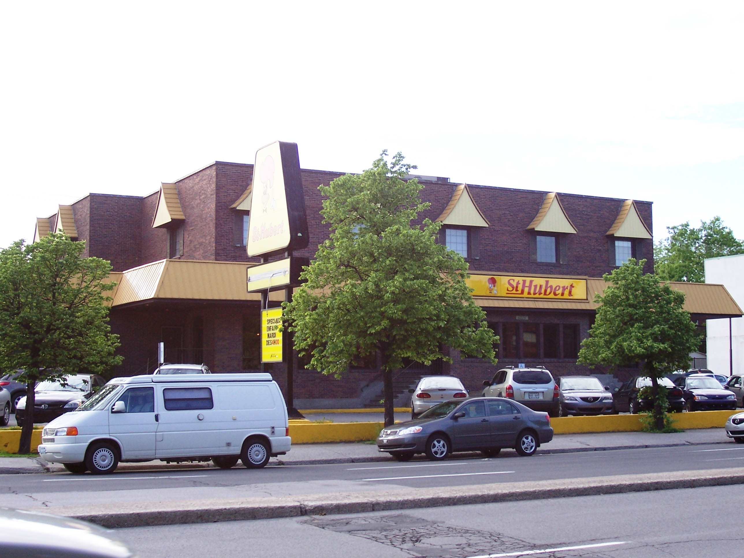 Photo of a St-Hubert restaurant located at 6225 Sherbrooke St East in Montreal, Quebec, Canada